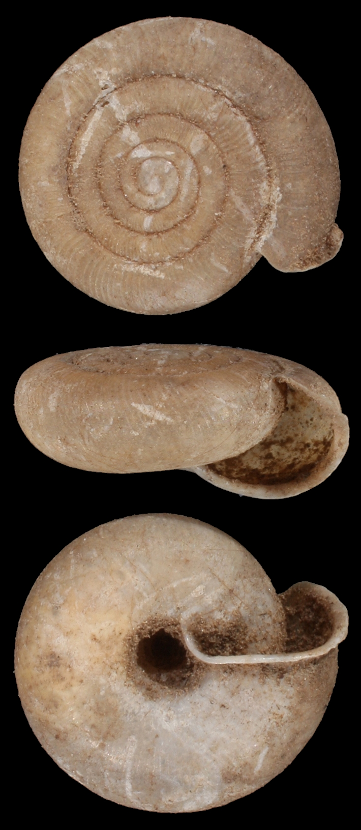 The photo of apical, apertural and umbilical view of the shell of Suboestophora hispanica. Locality: Spain: Jeresa, Les Congles. Date: 08-01-1988.